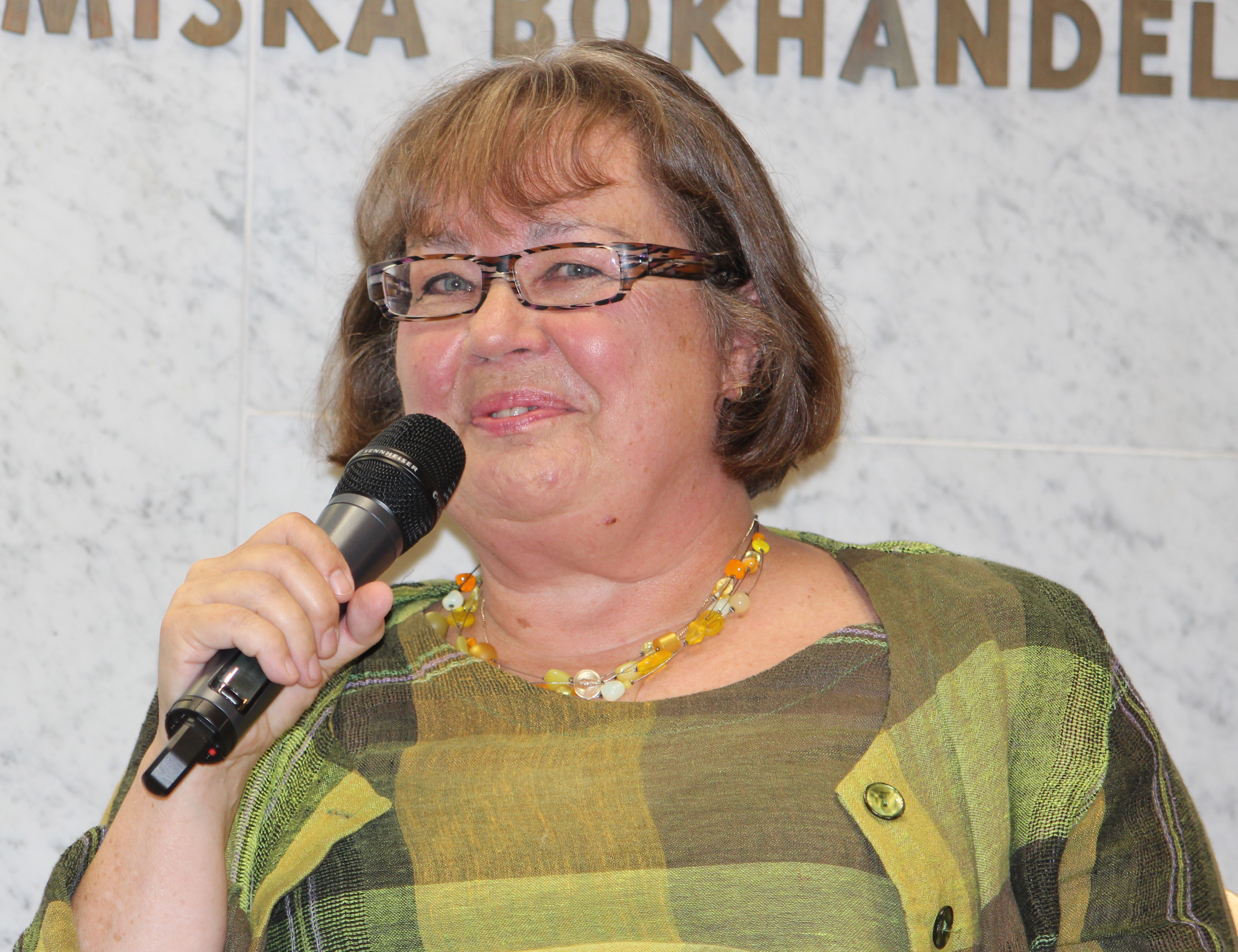 Finnish journalist and writer Eeva-Kaarina Aronen on the Night of The Arts in Helsinki 2014